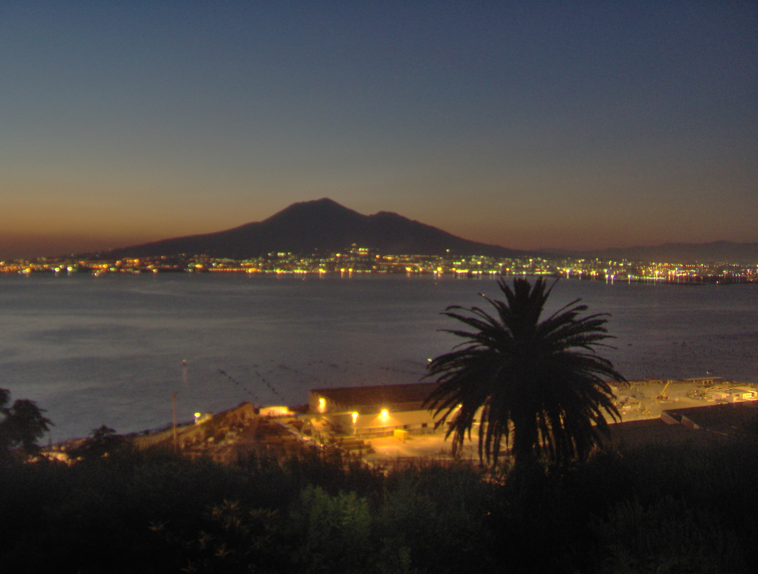 A view of Mount Vesuvius from a convent across the waters.